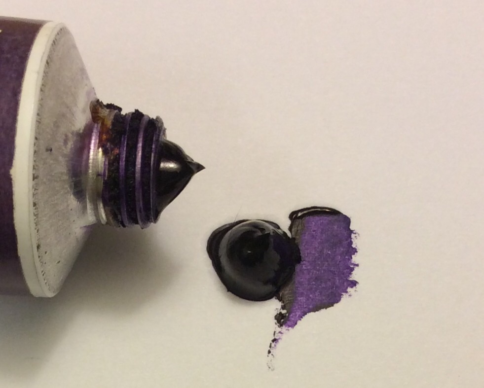 Oil colour with dioxazine violet, C.I. Pigment Violet 23